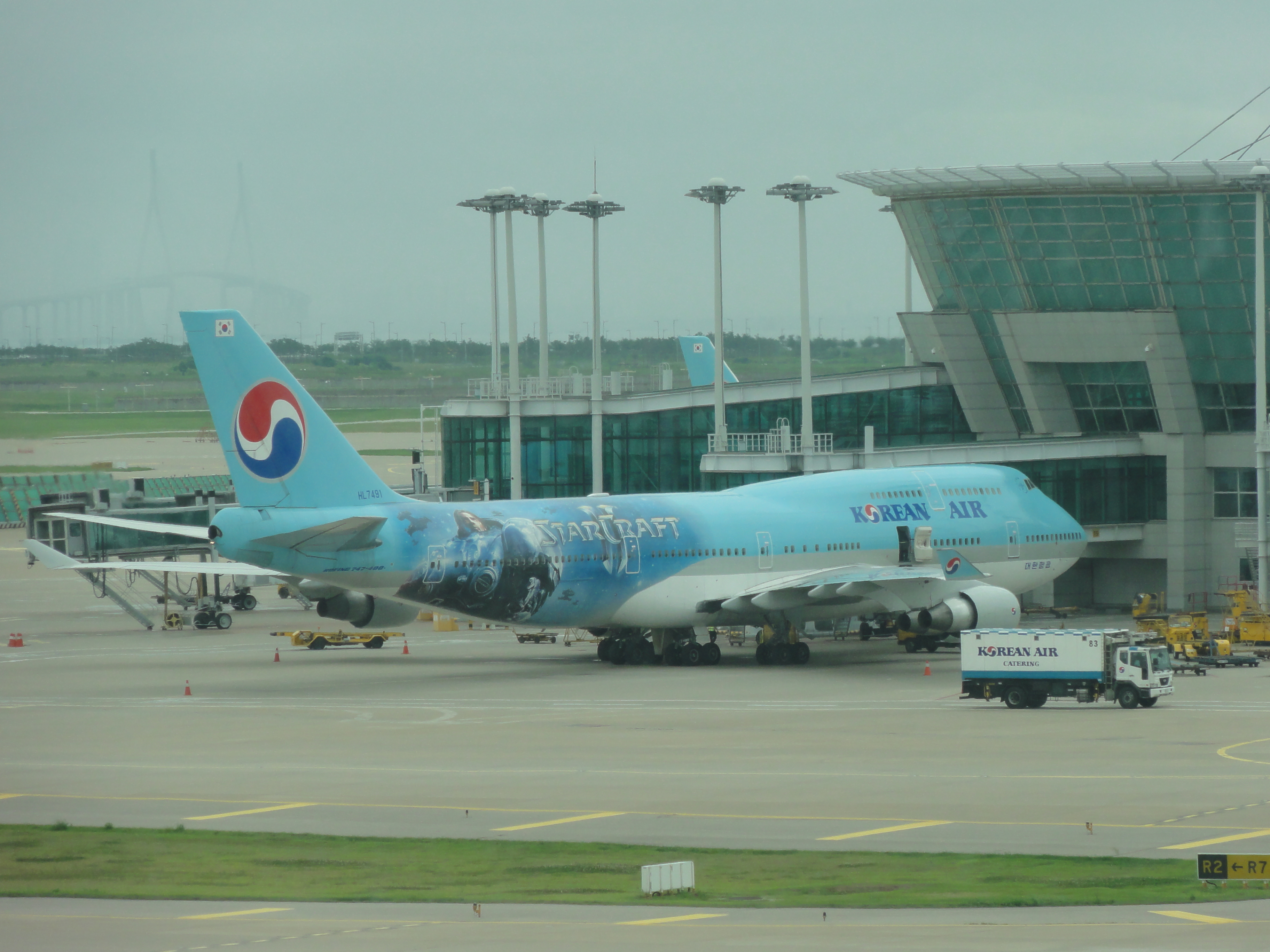 Starcraft II commercial on Korean Air